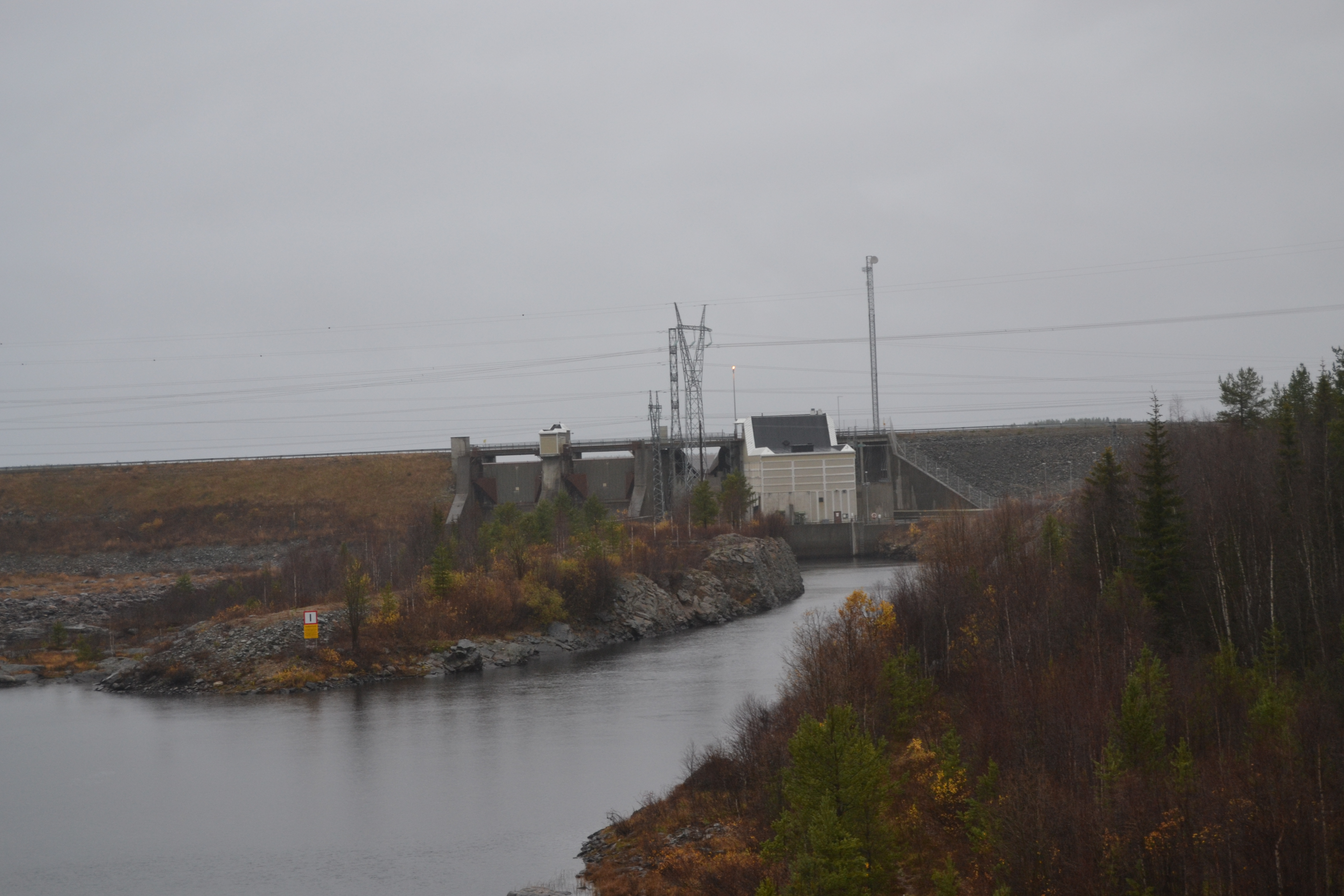 Vajukoski hydroelectric power plant on Kitinen in Sodankylä, Finland